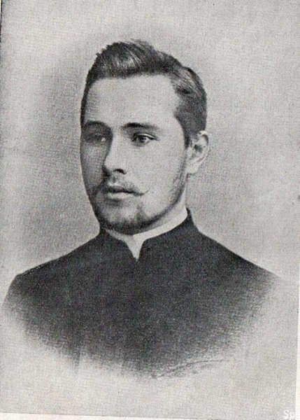 Antanas Smetona as a student of the University of Saint Petersburg Faculty of Law.